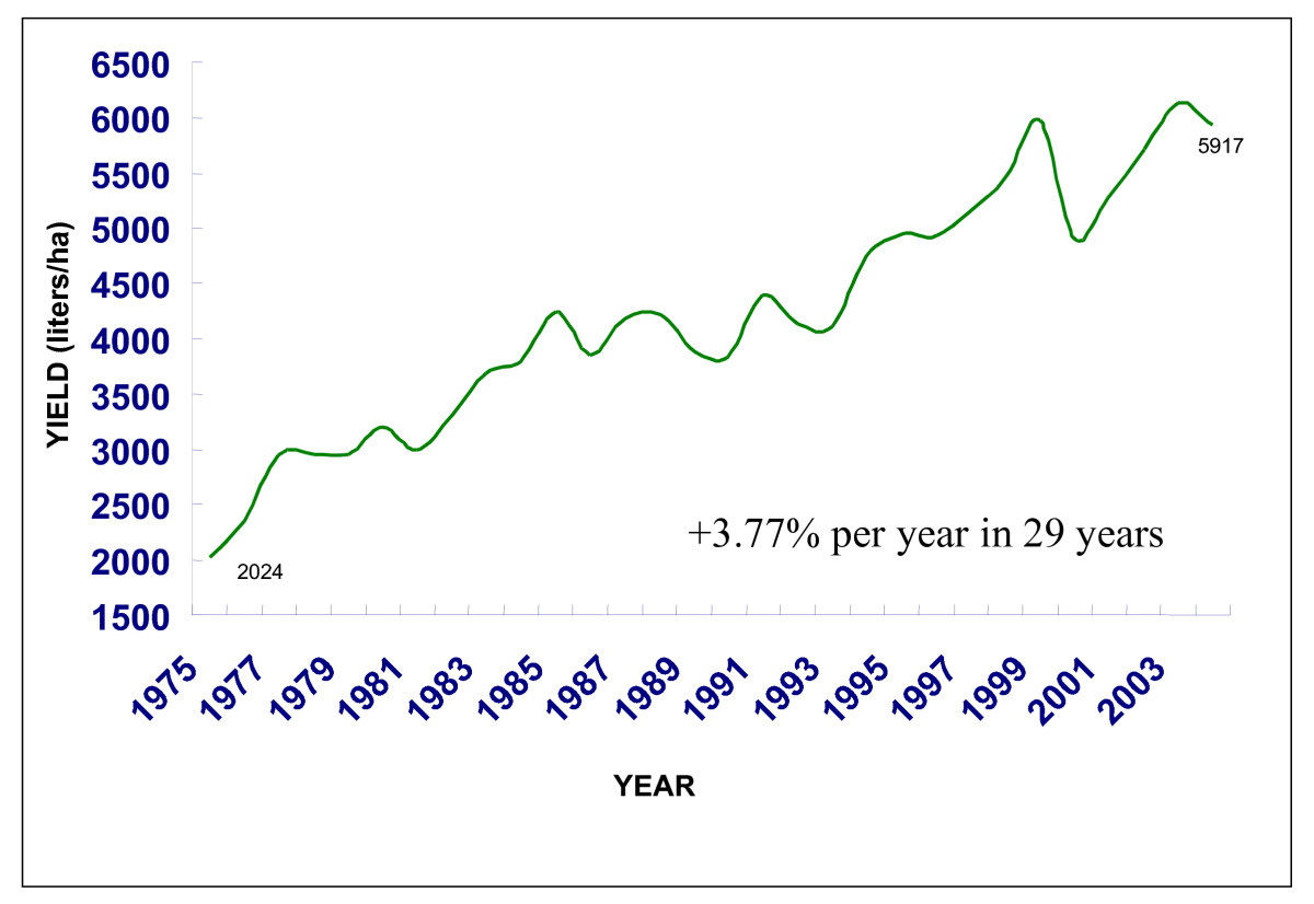 Graph showing the historical trend of ethanol productivity (from sugarcane) in Brazil. This is Figure 4 from the paper cited above.